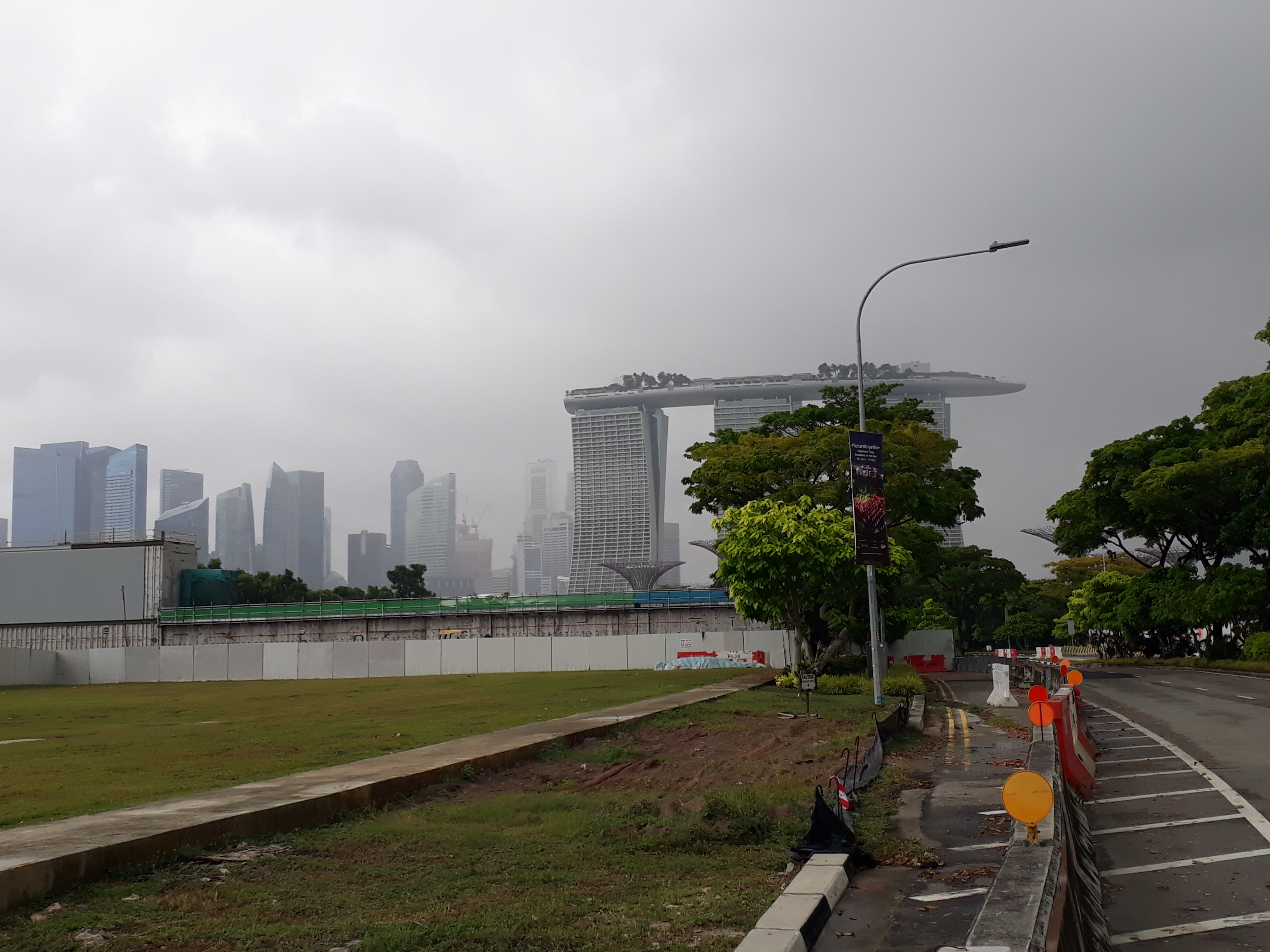 Gardens by the Bay MRT station